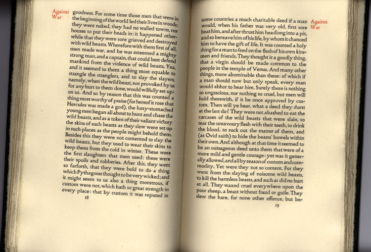 Against War, by Erasmus, printed by the Merrymount Press, Boston, Massachusetts, 1908, typical pages of text (pp 18 and 19). Edited by John W. Mackail; translator unidentified; types and decorations by Herbert P. Horne. Copyright has expired on the text of this book. No copyright was asserted in the image itself, which was placed online by the Springfield, Massachusetts, library system.